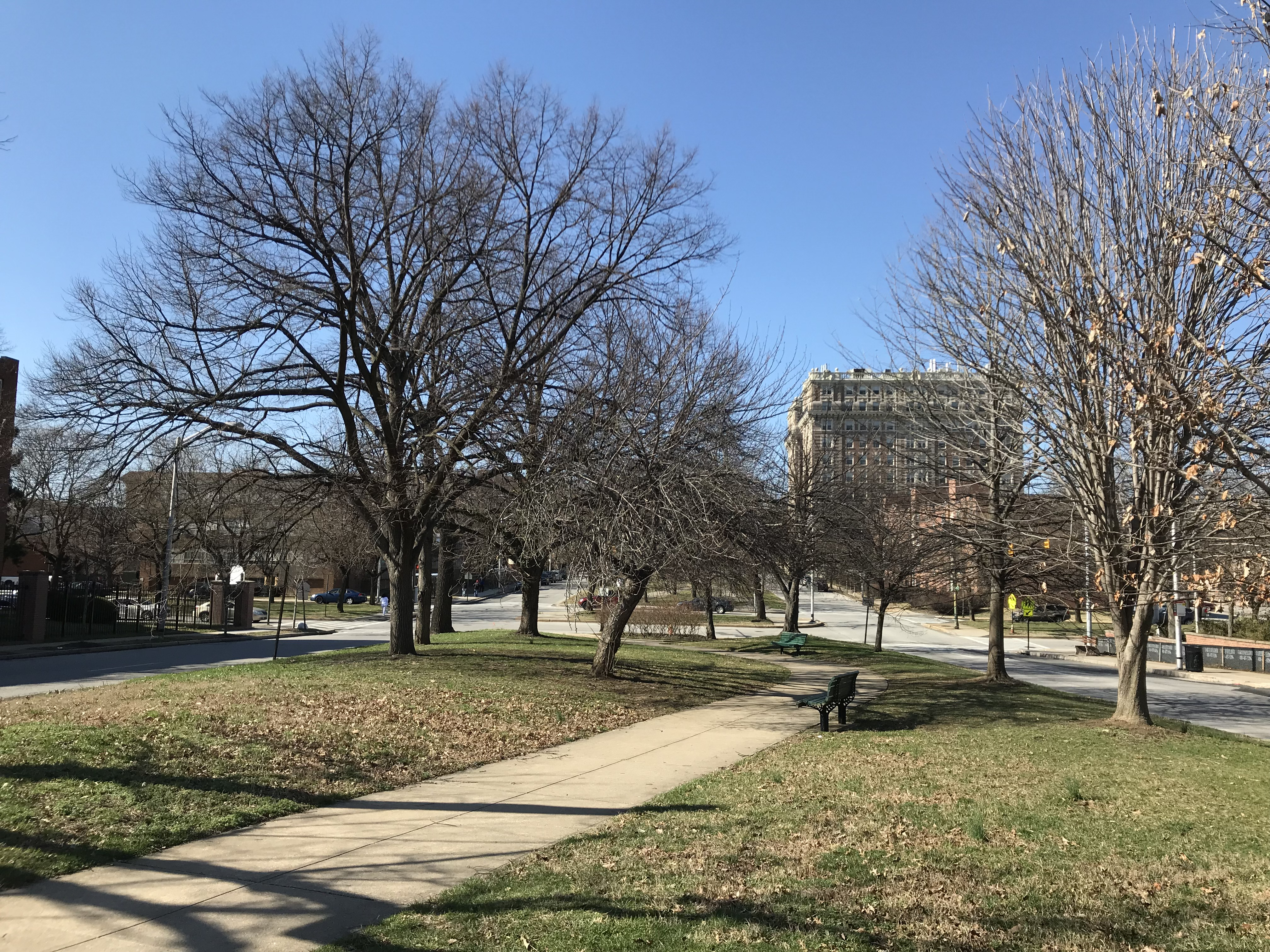 Photograph by Eli Pousson, 2018 February 27.